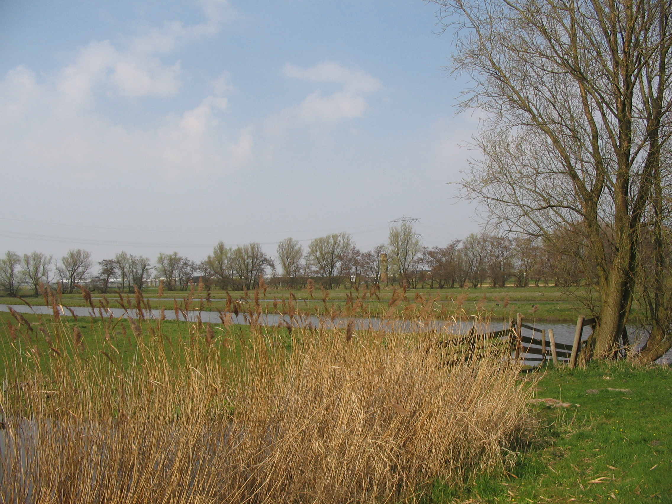 Zeven Gaten, Honselersdijk, the Netherlands